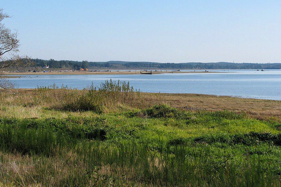 Humptolips River mouth into Grays Harbor